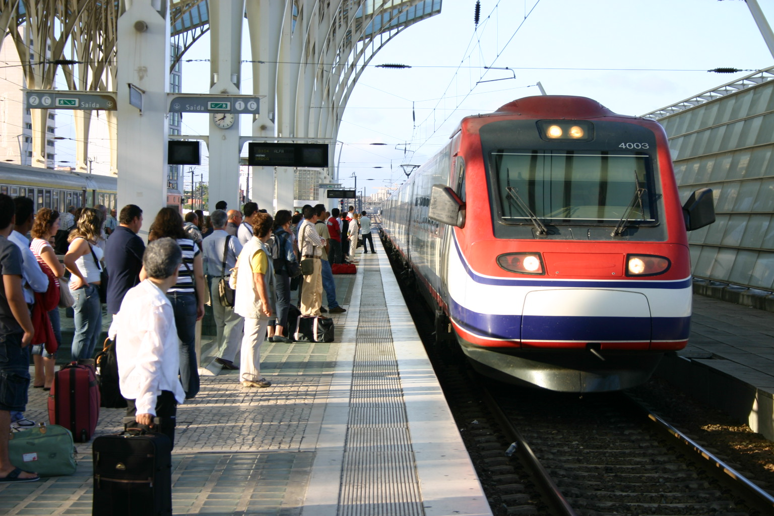 Autor: António ML Cabral Esta foto pode ser usada para qualquer tipo de utilização com a condição de ser indicado o nome do autor. This picture can be used for all kinds of usage with the condition of the author's name to be indicated.